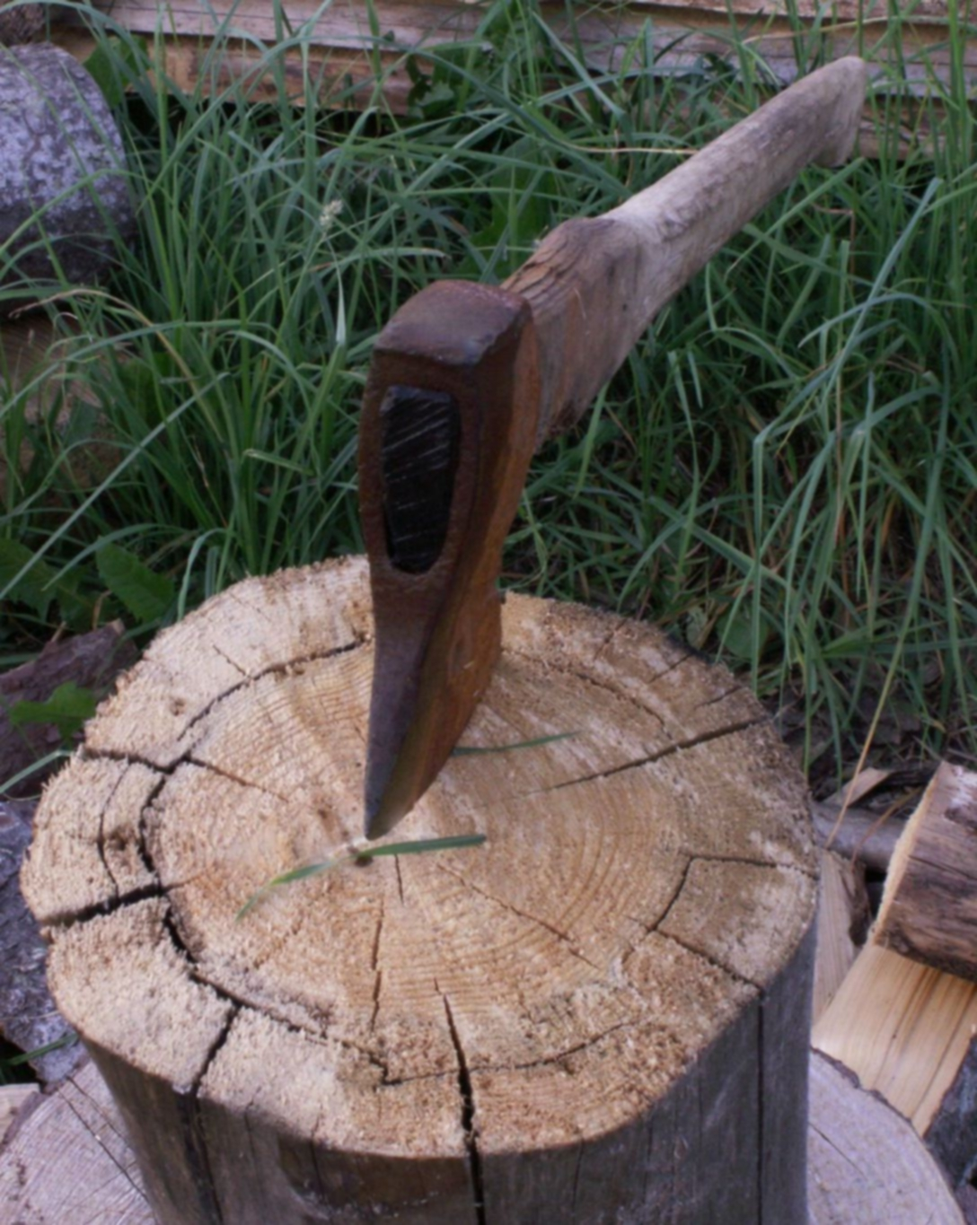 Axe for splitting logs; ash handle